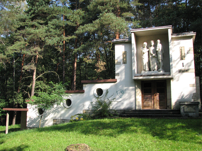 Calvary in Katowice Panewniki, Stations of the Cross - "Jesus is condemned to death". Completed in 1938.